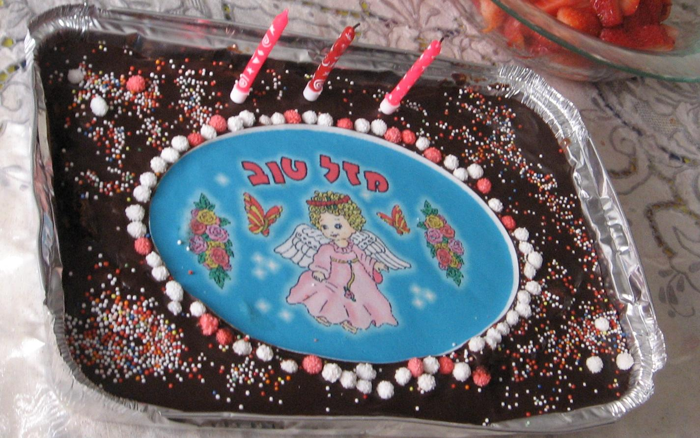 A birthday cake for a 2 years old Israeli girl.